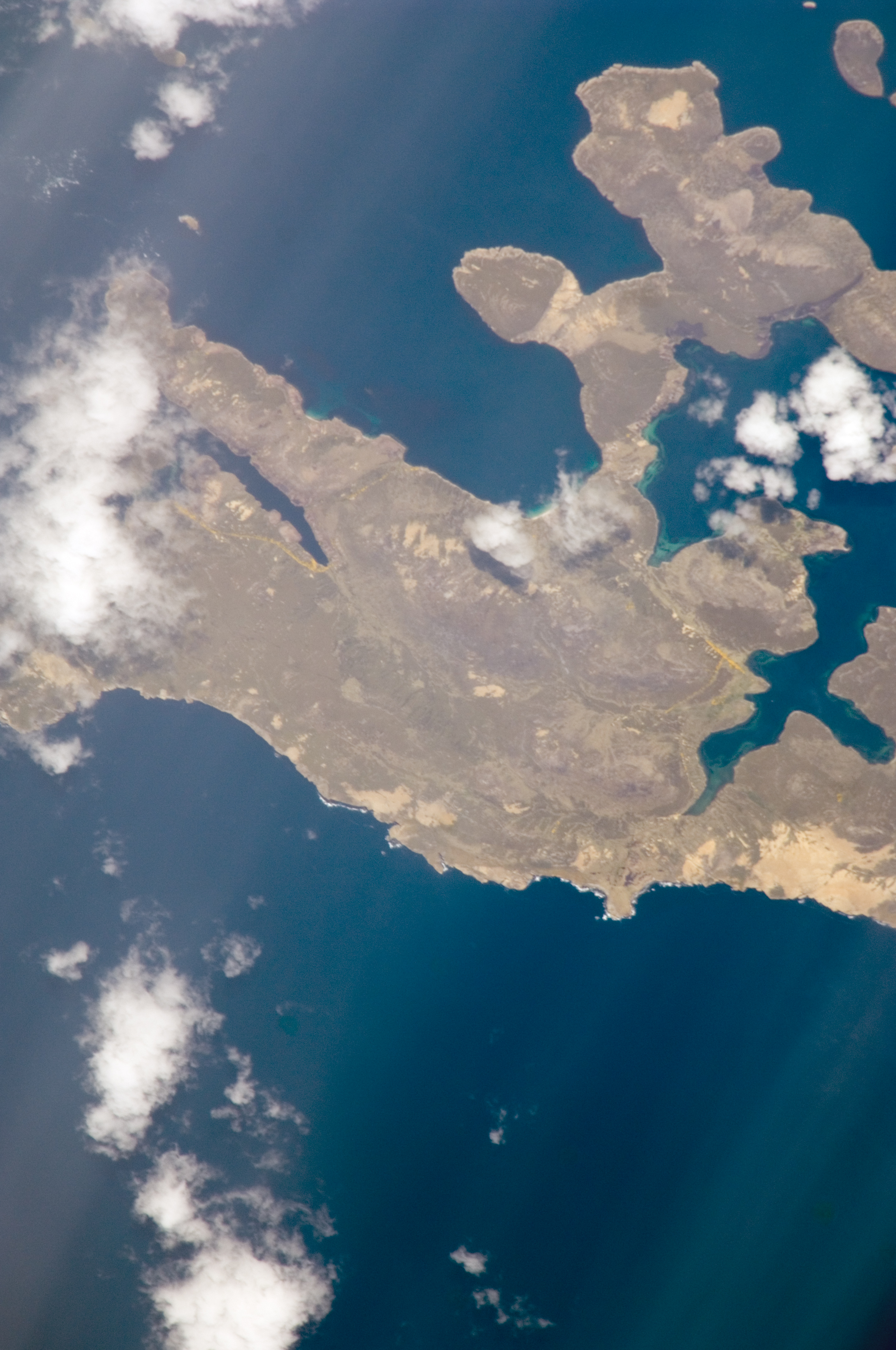 Satellite image of Beaver Island in the Falkland Islands